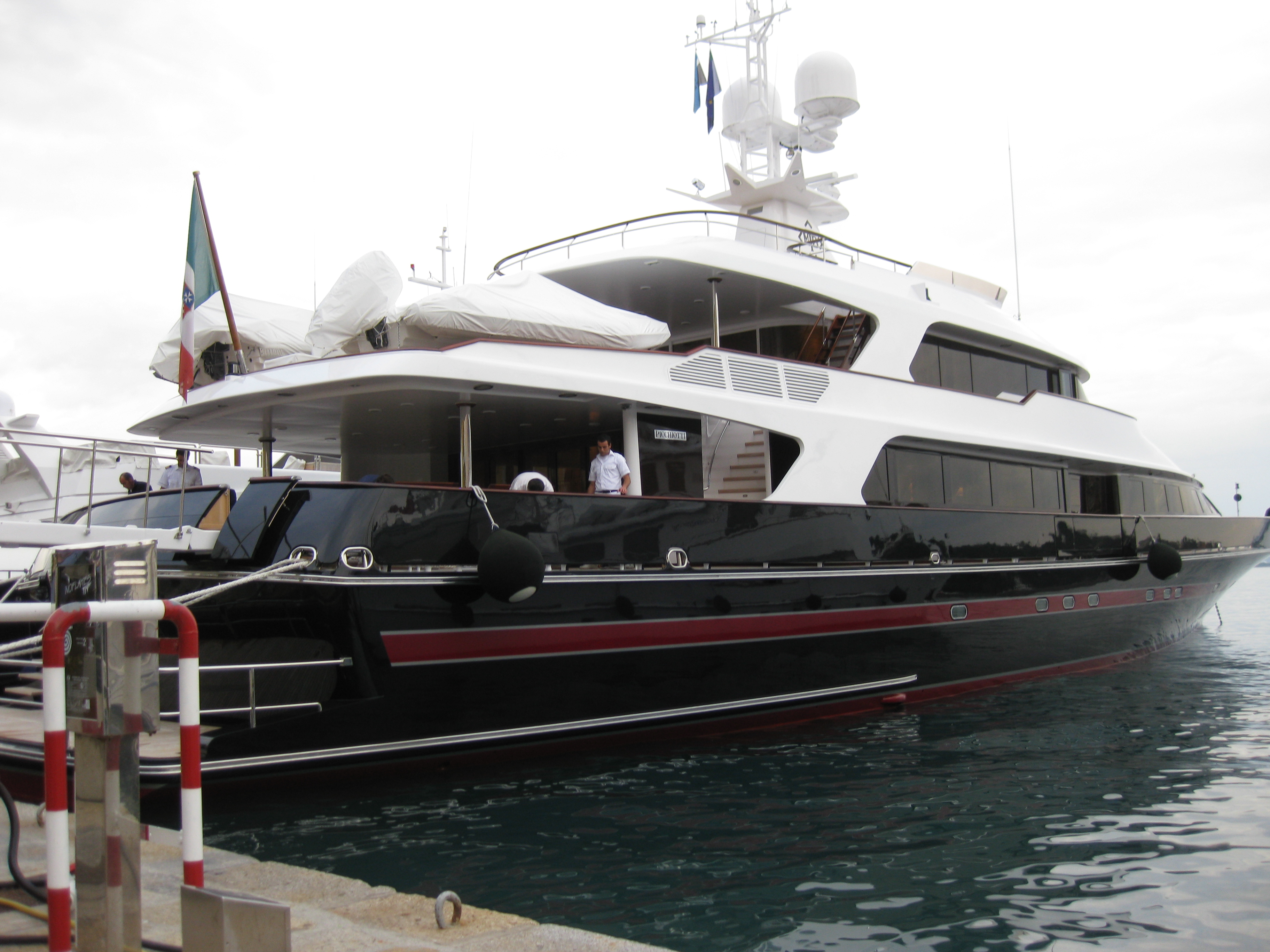 TM Blue One, stylist Valentino's Yacht at Porto Santo Stefano (ITALY)